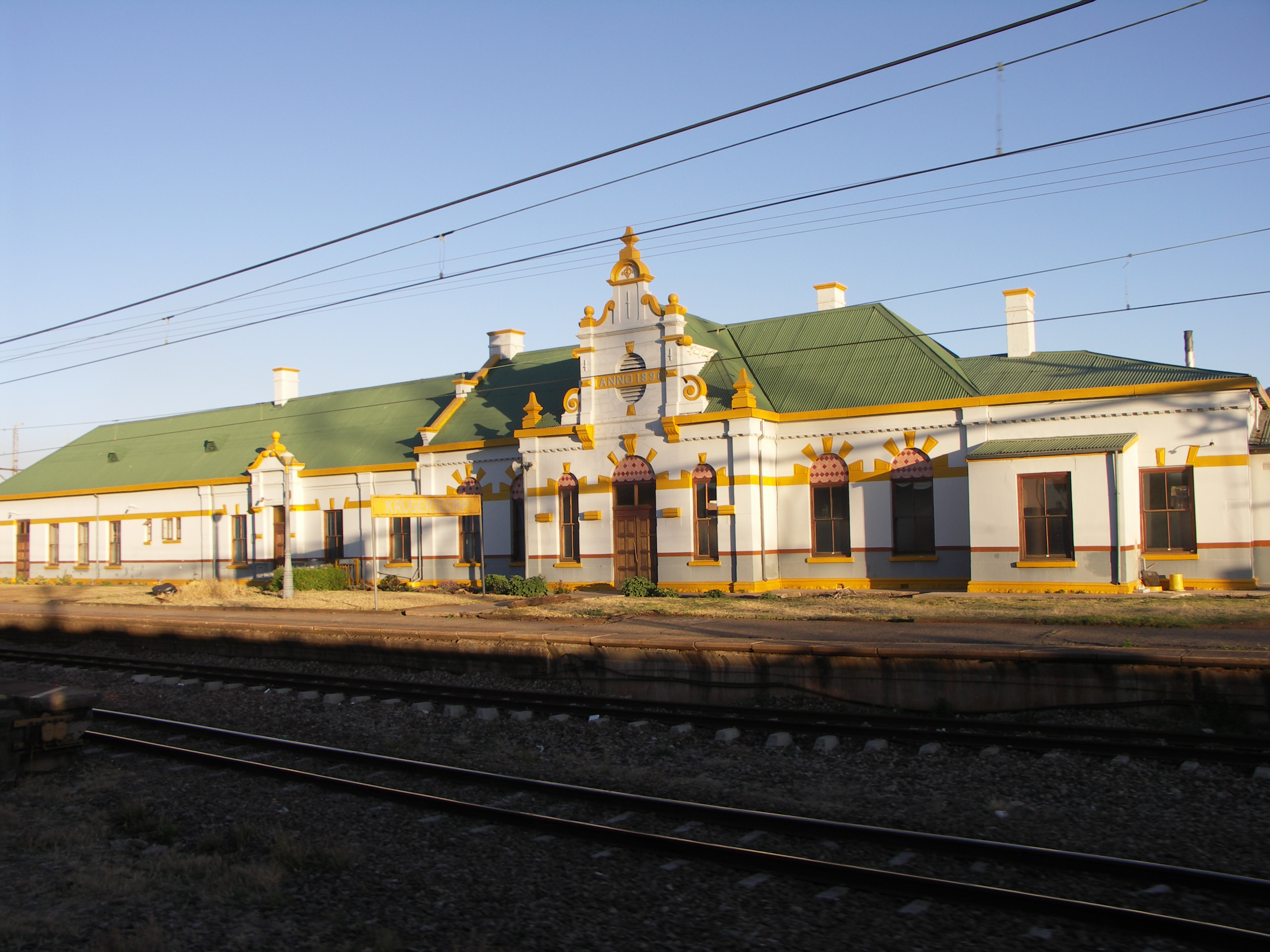 Old station building at Krugersdorp railway station